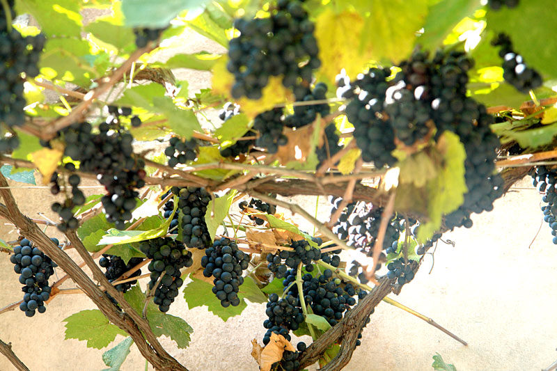 Grapes from Georgia